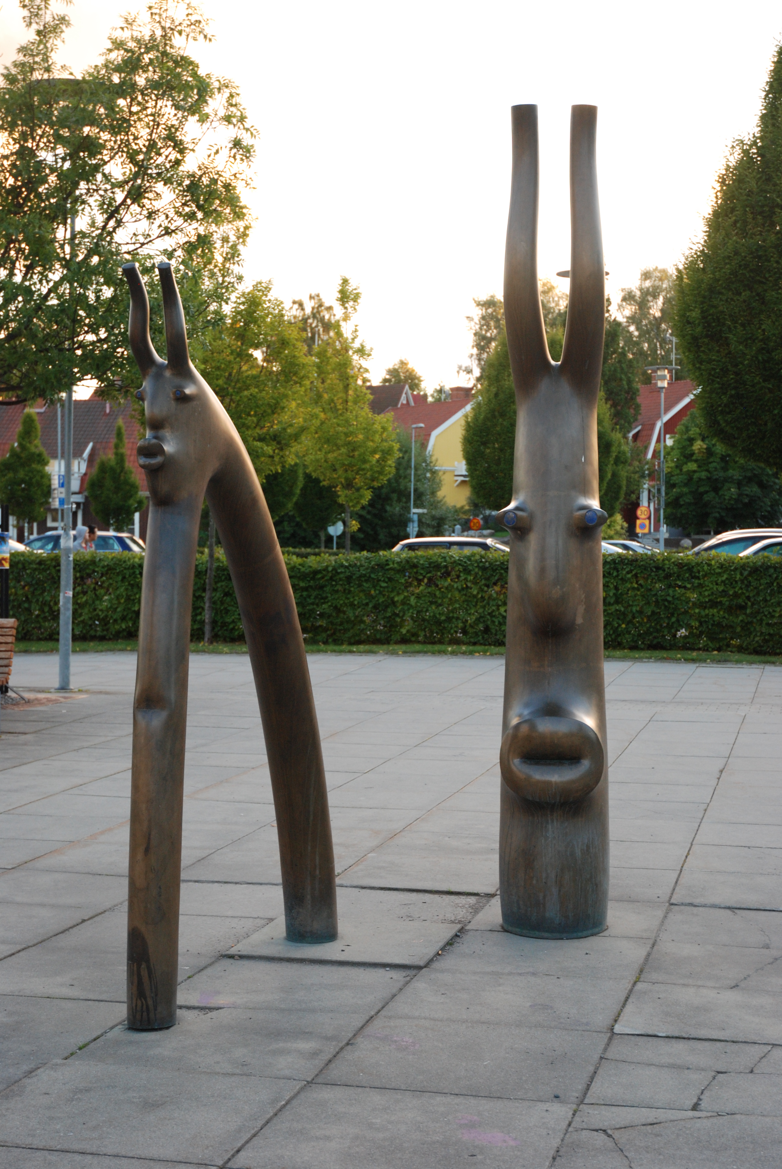 Ragnhild Alexandersson´s Den sökande människan, bronze, 1995, on the square in front of Mälardalens högskola in Västerås, Sweden Height: 3 meter and 2.3 meter respectively